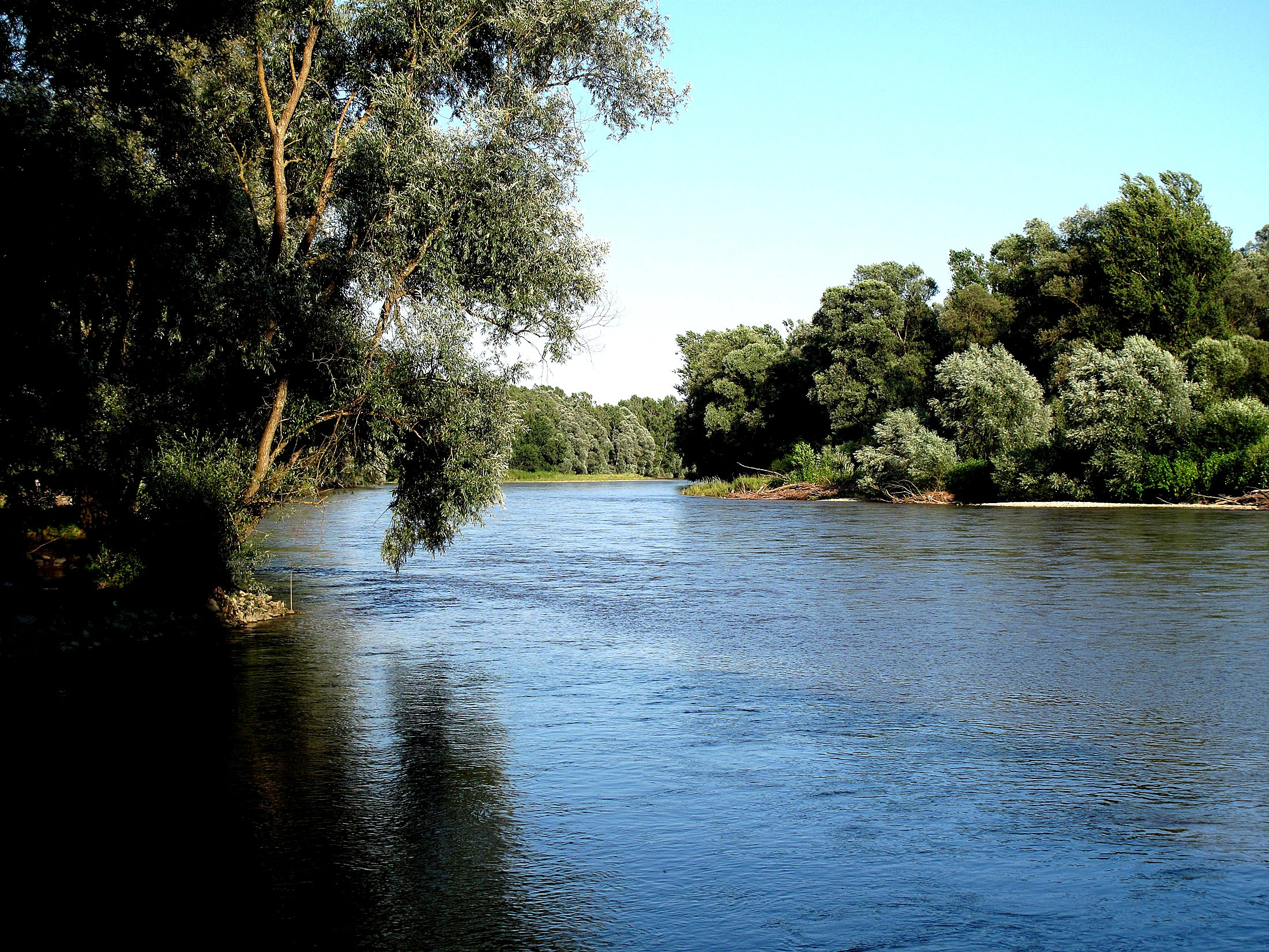 Mura river - Slovenija - the last »Amazon« forest in Europe, under the threat of the hidropower corporations